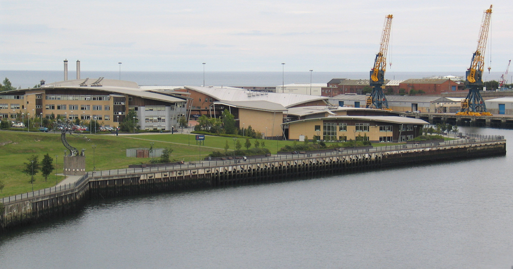 St Peter's Campus at the University of Sunderland, Sunderland, England. Photographed by John-Paul Stephenson on 8 September 2005.